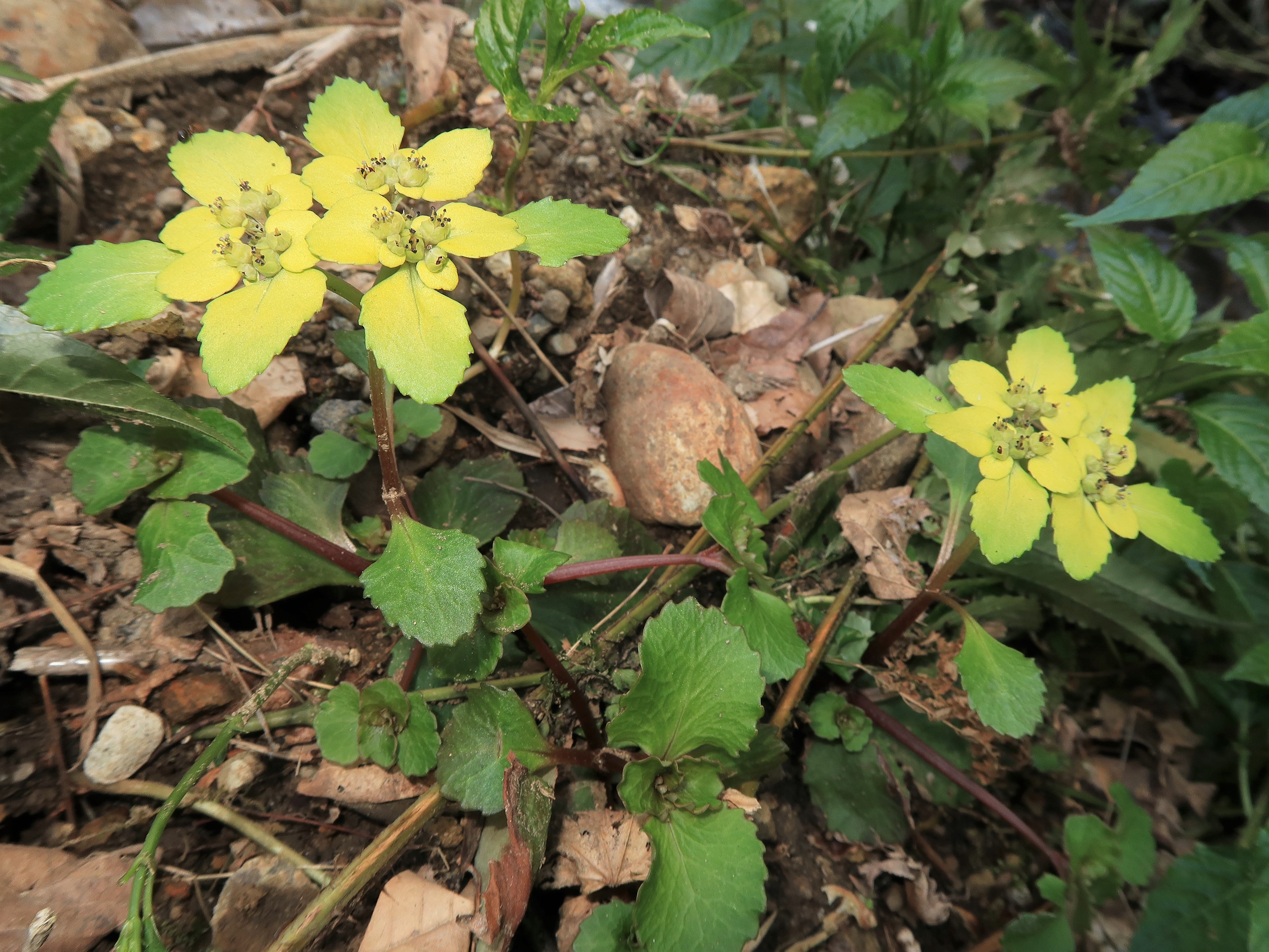 Chrysosplenium fauriei, Toyama city, Toyama pref., Japan